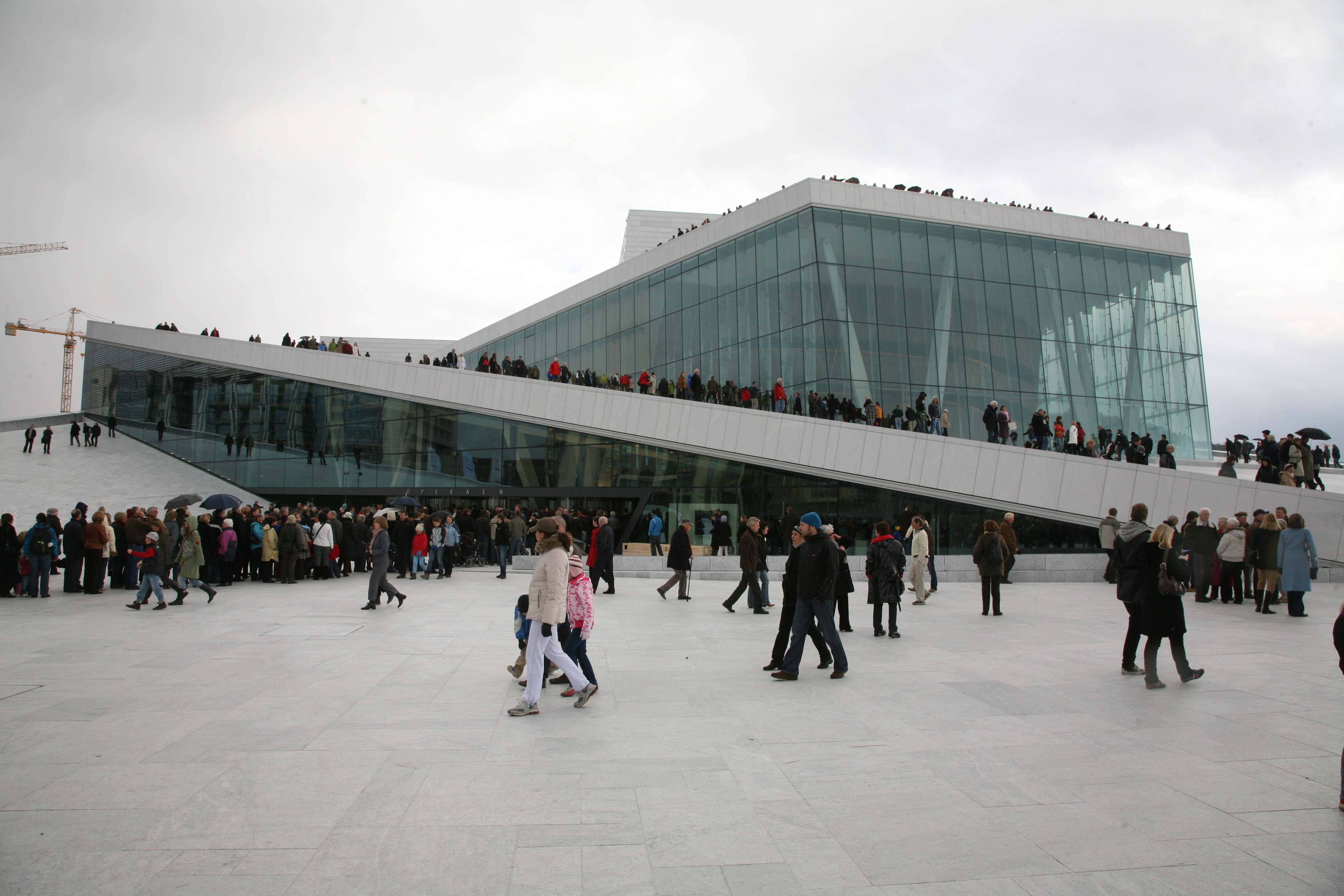 People on Kirsten Flagstads plass i Oslo whith the opera house